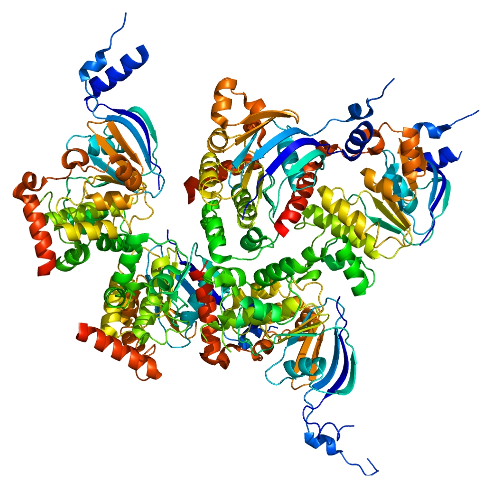 Structure of the CFTR protein. Based on PyMOL rendering of PDB 1xmi.